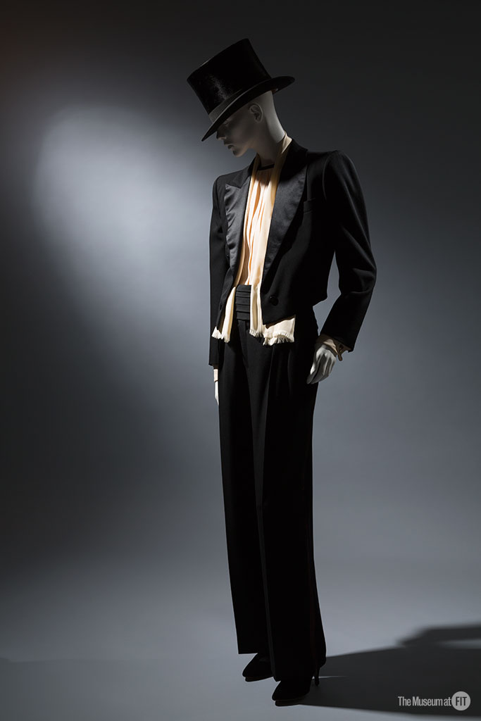 Black wool, satin, and off-white silk crepe c. 1982, France Gift from The Estate of Tina Chow, 91.255.4 YSL + Halston: Fashioning the 70s Photograph by Eileen Costa © The Museum at FIT.